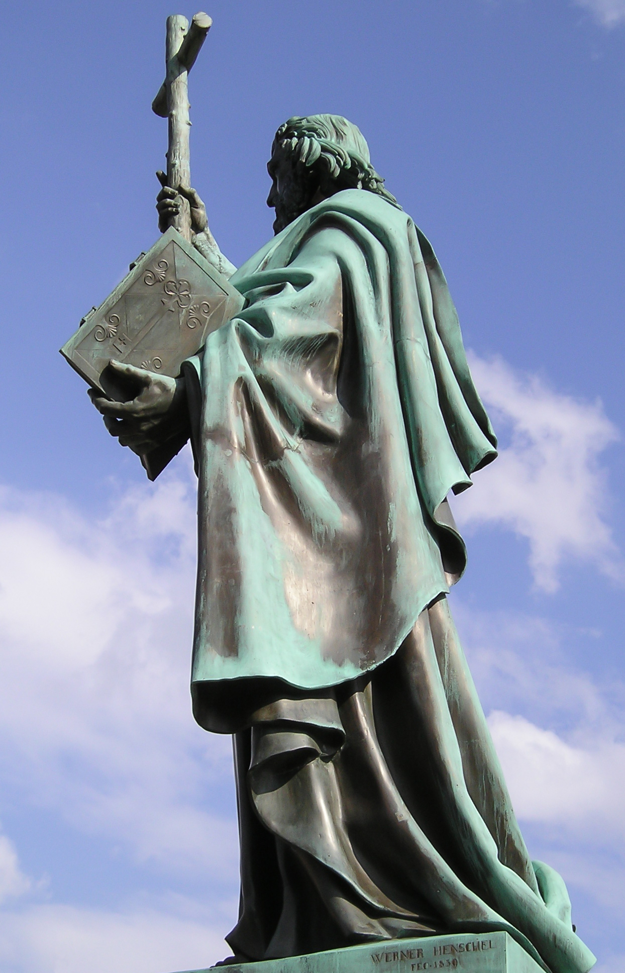 Statue of Saint Boniface by Werner Henschel (1830) in Fulda, Germany